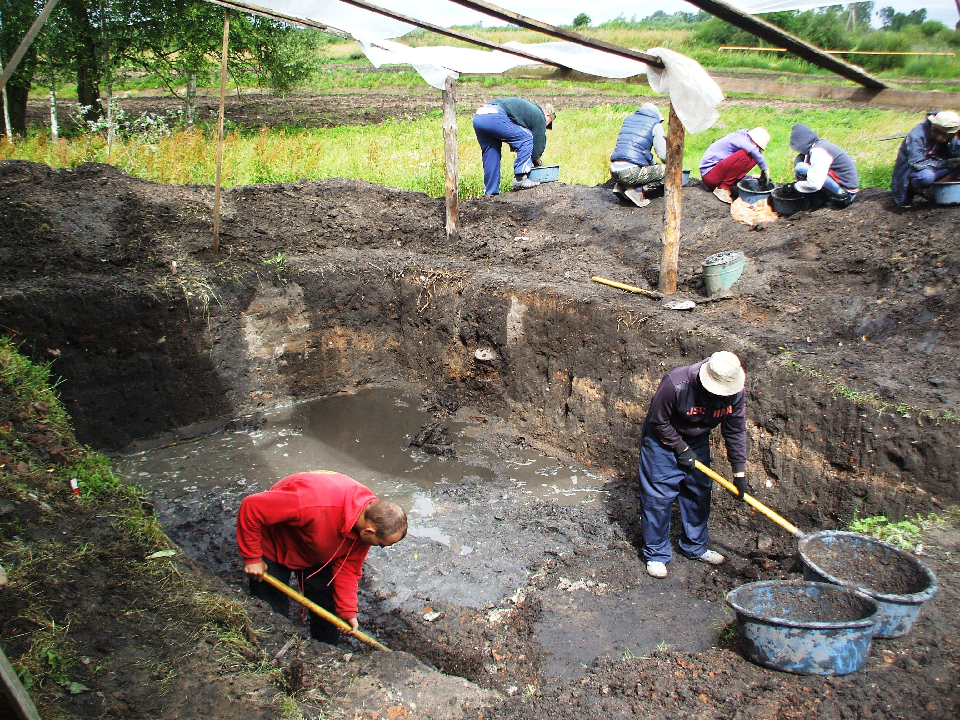 Archaeological expedition in the village Laŭryšava (Ščorsaŭski Sieĺski Saviet, Navahrudski Rajon, Hrodzienskaja Voblasć, Belarus), 2015. Work on the archaeological excavations.